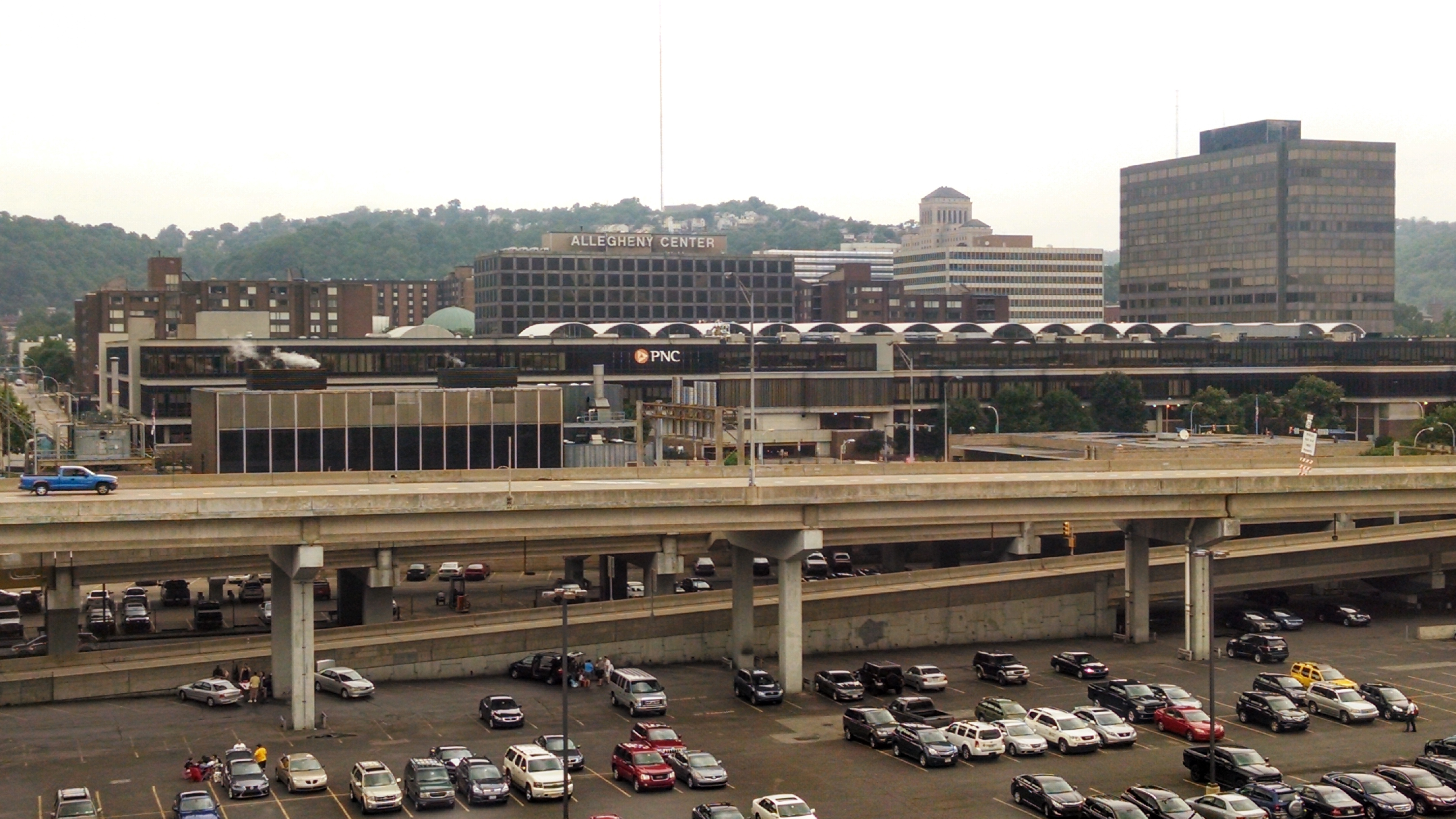 Photo of the former Allegheny Center Mall in 2014. View is from PNC Park. Took image myself 06/09/2014.